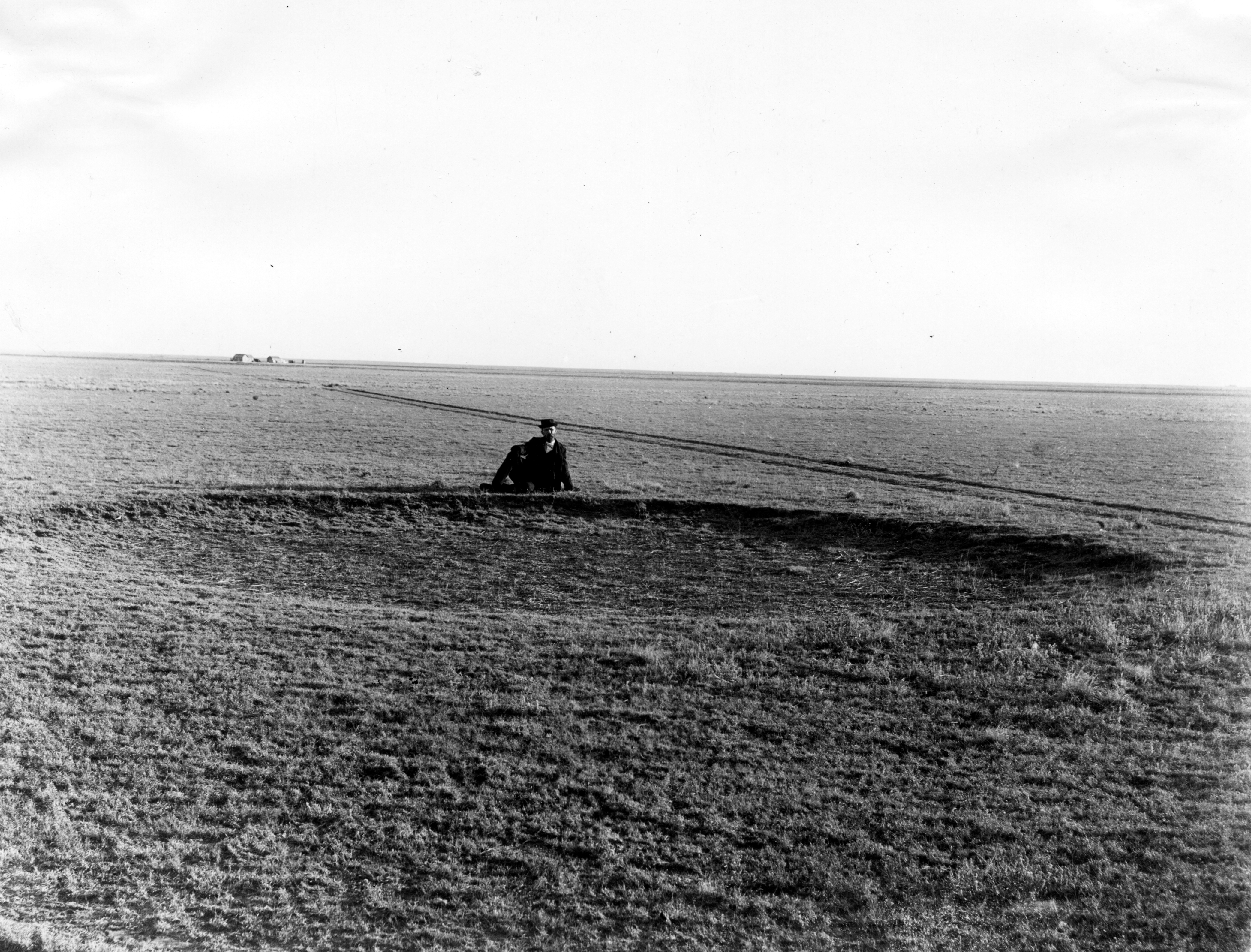 Appears as Plate II in: Darton, N.H. 1920. Syracuse-Lakin folio, Kansas. United States Department of the Interior, U.S. Geological Survey, Folios of the Geologic Atlas, no. 212. Original caption: Typical surface of the country underlain by the Ogallala formation of the High Plains of western Kansas. Buffalo wallow, shallow circular depression in the level surface, in foreground. Photo date is 1897 and location is Haskell County, Kansas.